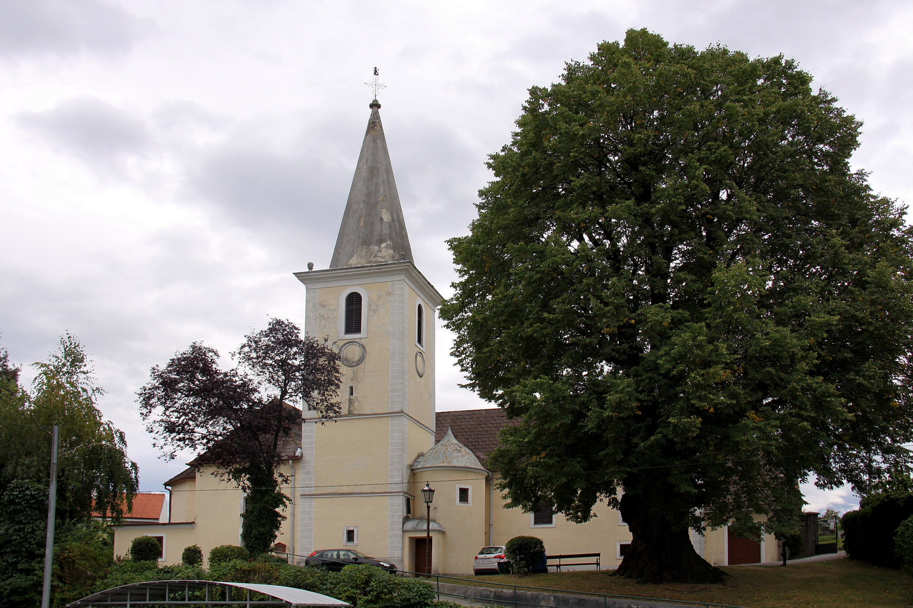 Former parish church - Wiesen (Burgenland) Object location47° 44′ 15.01″ N, 16° 20′ 21.16″ E